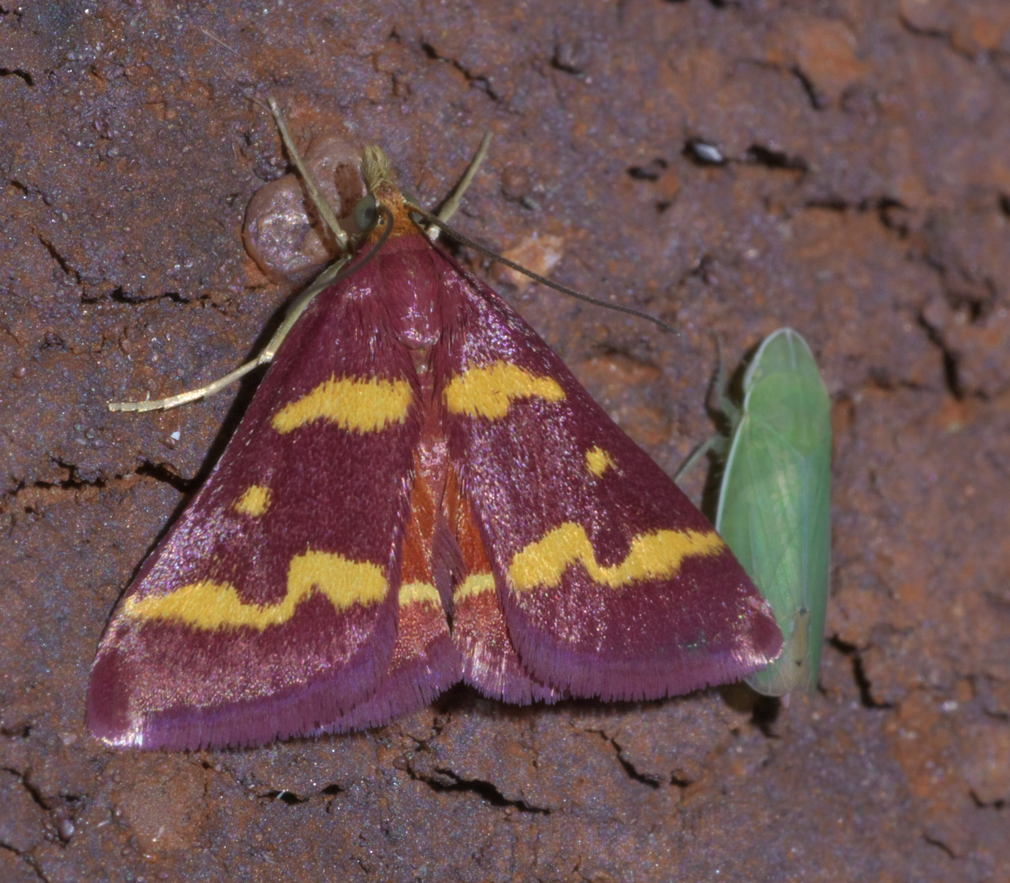 Memnonia flavida, Family: Leafhoppers, (right), ID Confidence: 88